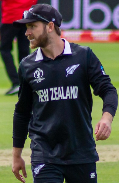 Kane Williamson in Cricket World Cup 2019, Afghanistan vs New Zealand, Taunton, Somerset